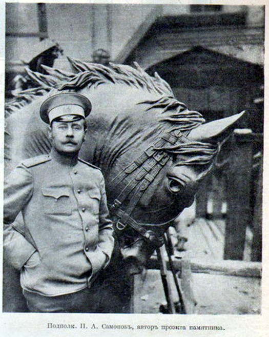 Saint-Petersburg. Sculptor Samonov with part of his monument to General Skobelev at the Moran factory. 1912 year.